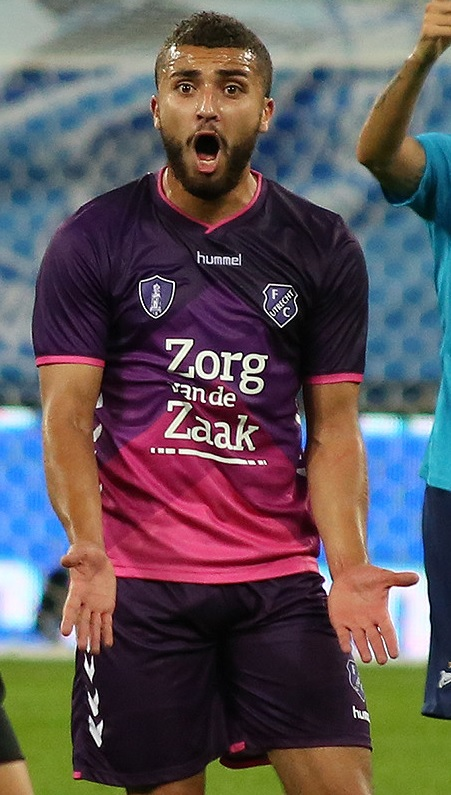 Zakaria Labyad with FC Utrecht in a UEFA Europa League game against FC Zenit St. Petersburg.